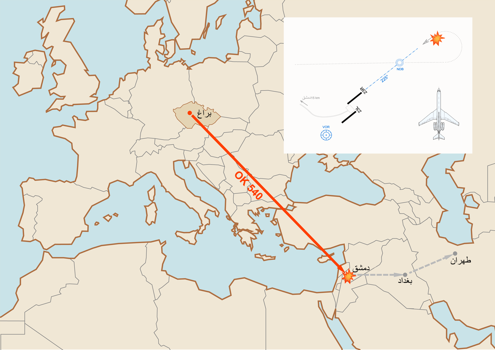 Disaster of ČSA flight 540